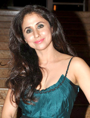 Urmila Matondkar at the launch of Jai Maharashtra channel